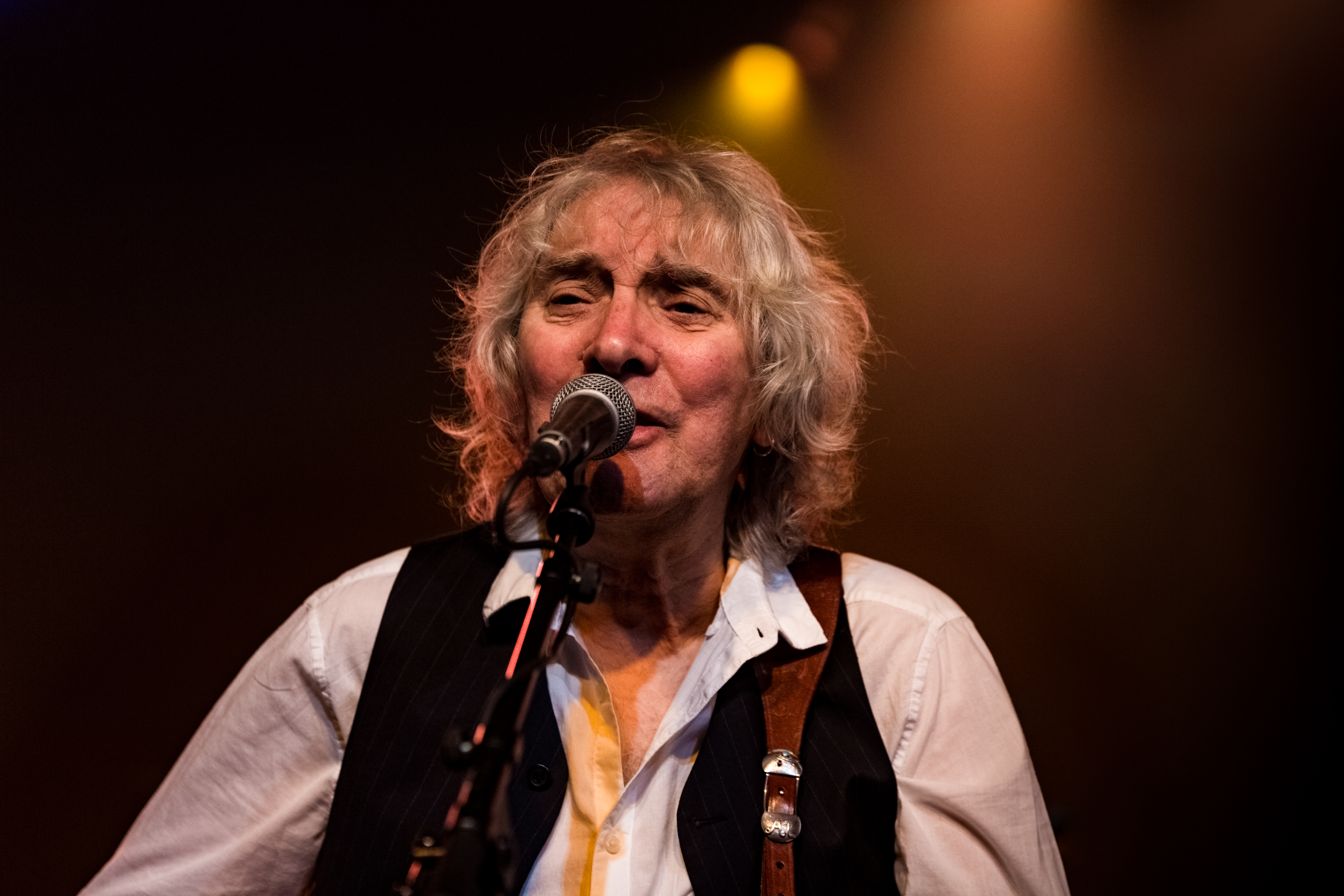 Albert Lee - Leverkusener Jazztage 2017